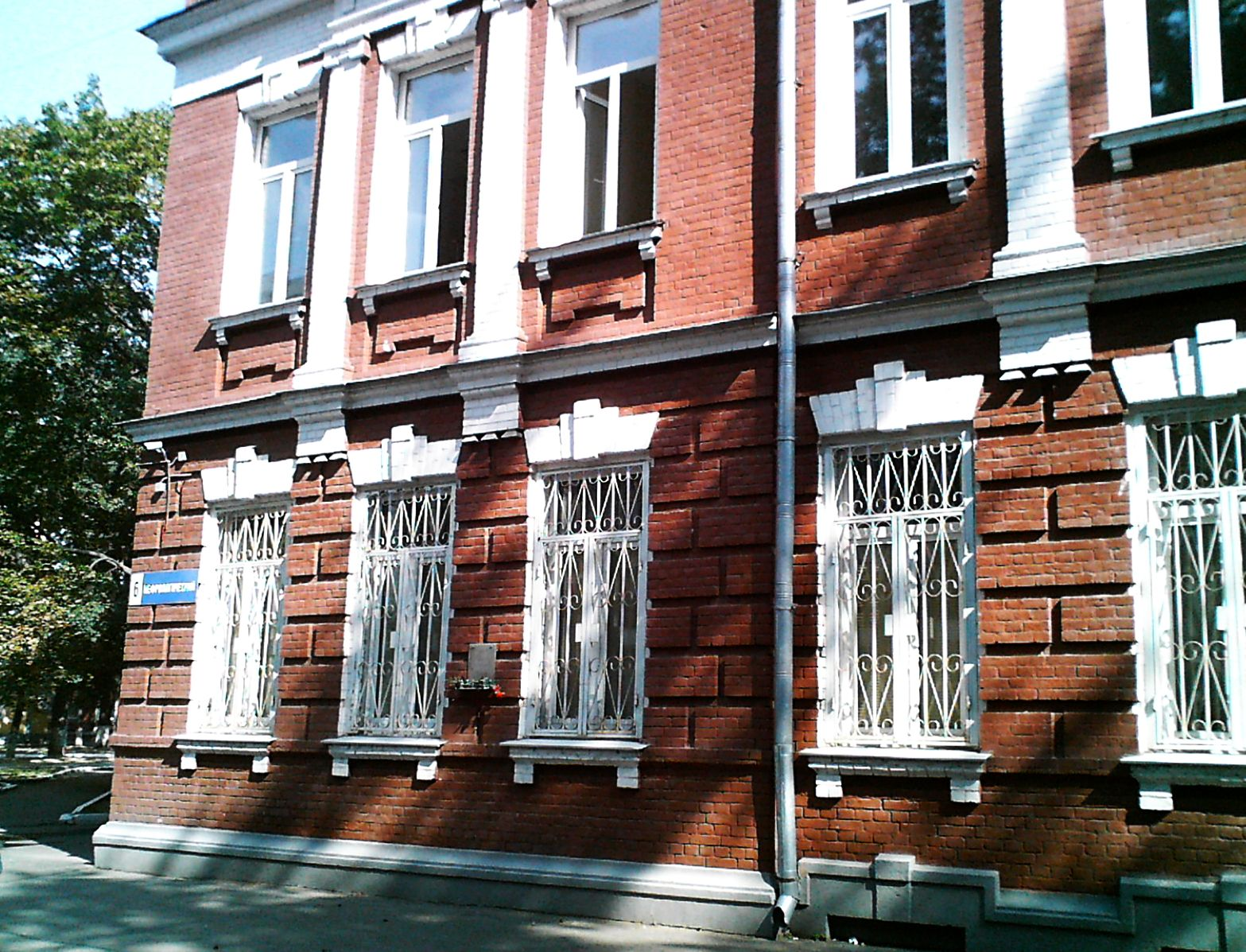 Moscow, Shchepkina street, 61\2. Here in the maternity ward # 8 was born January 25, 1938 Vladimir S. Vysotsky. Now the building is owned by MONIKI Hospital. A memorial plaque set privately physician Victor G. Kazimirtsev